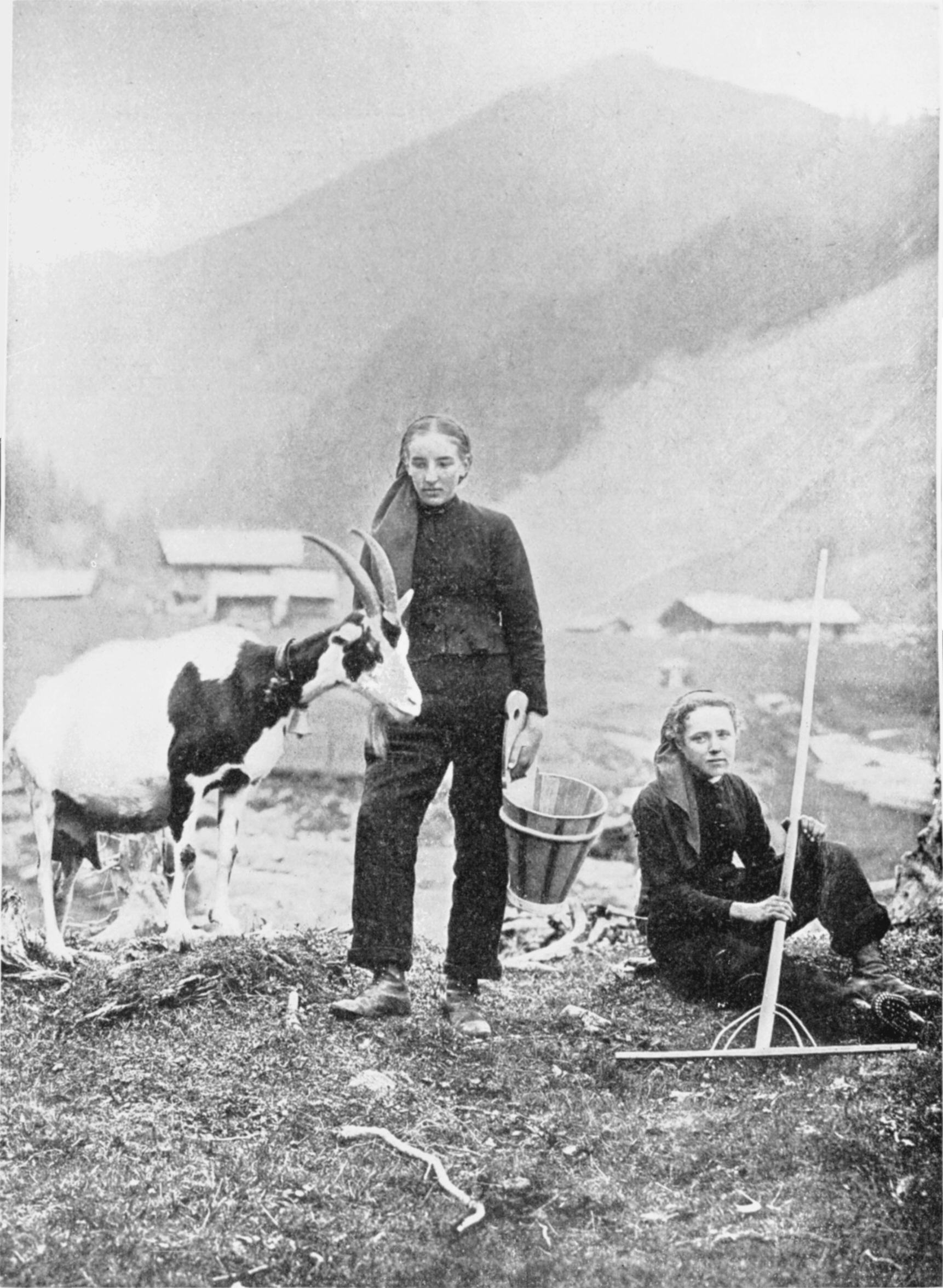 Woman as the wearer of trousers; woman of Champéry, Switzerland